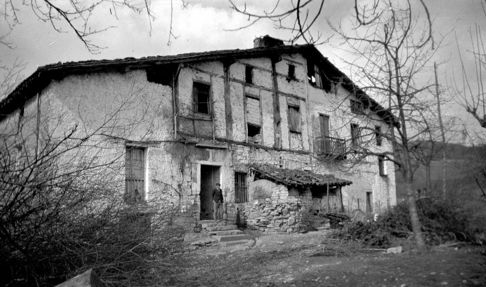 The baserri (Basqeu farmhouse) of Lizarralde in Bergara